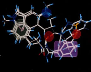 pharmacophore fit